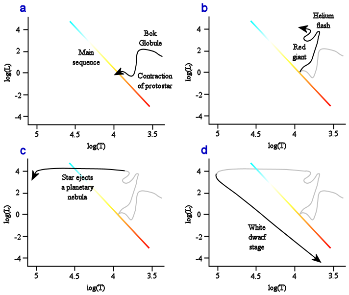 This diagram shows the primary evolutionary stages of a solar-mass star. The axes are scaled to show the logarithm of the stellar Luminosity (L) versus the surface Temperature (T). In this diagram the Sun currently has a log(L) of zero and lies along the diagonal, main-sequence line. The star begins as a Bok globule (a) that contracts to form a condensing protostar. When it begins burning Hydrogen about 30 million years later, it stabilizes into a zero-age main sequence star. Thereafter it remains a main sequence star for about the next 10 billion years. The proportion of Helium at the core of this star steadily increases over this period, causing a gradual rise in luminosity. As the Hydrogen at the core becomes exhausted, the star blossoms into a massive red giant (b). The star increases in luminosity, burning Hydrogen in a shell around a degenerate Helium core. Finally the Helium flash triggers Helium fusion to begin at the core. One to two billion years after leaving the main sequence, the giant star now begins to experience a period of instability. The envelope is gently ejected (c), forming a planetary nebula and exposing the hot, compact core. Once Helium fusion has ceased, the star becomes a white dwarf (d) and slowly radiates away its remaining energy.